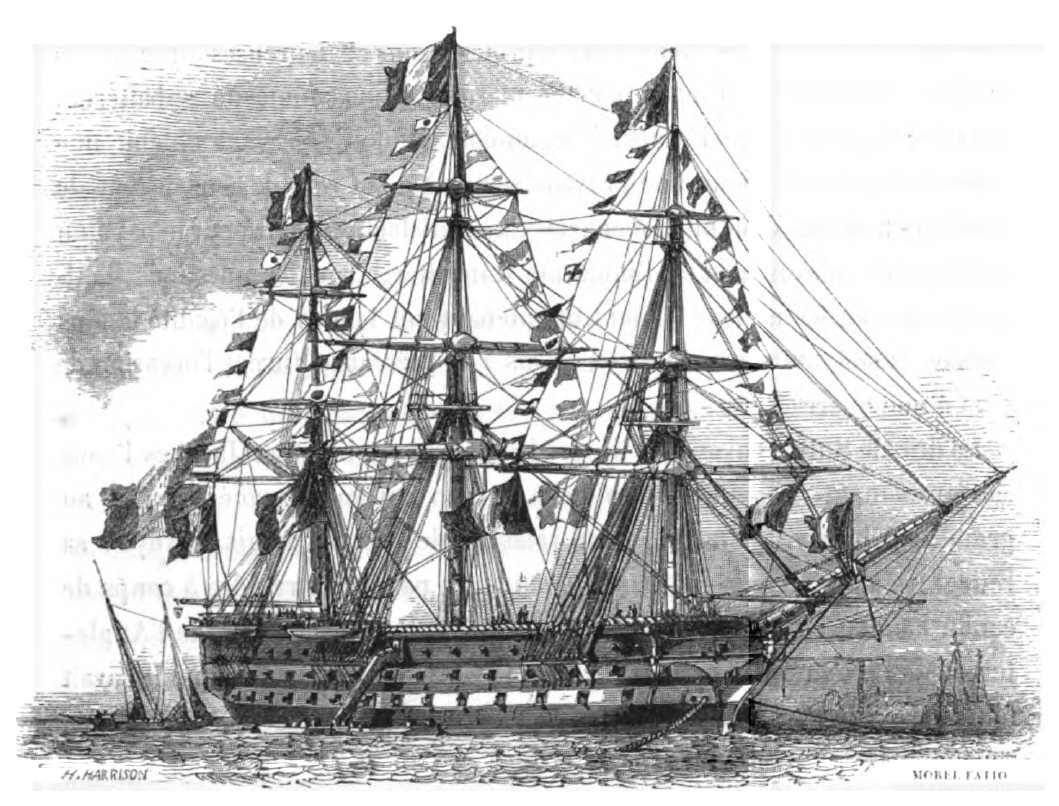 A ship of the line dressed overall. The ship appears to be an Océan class ship of the line. Illustration from La Marine, by Pacini, p.137.